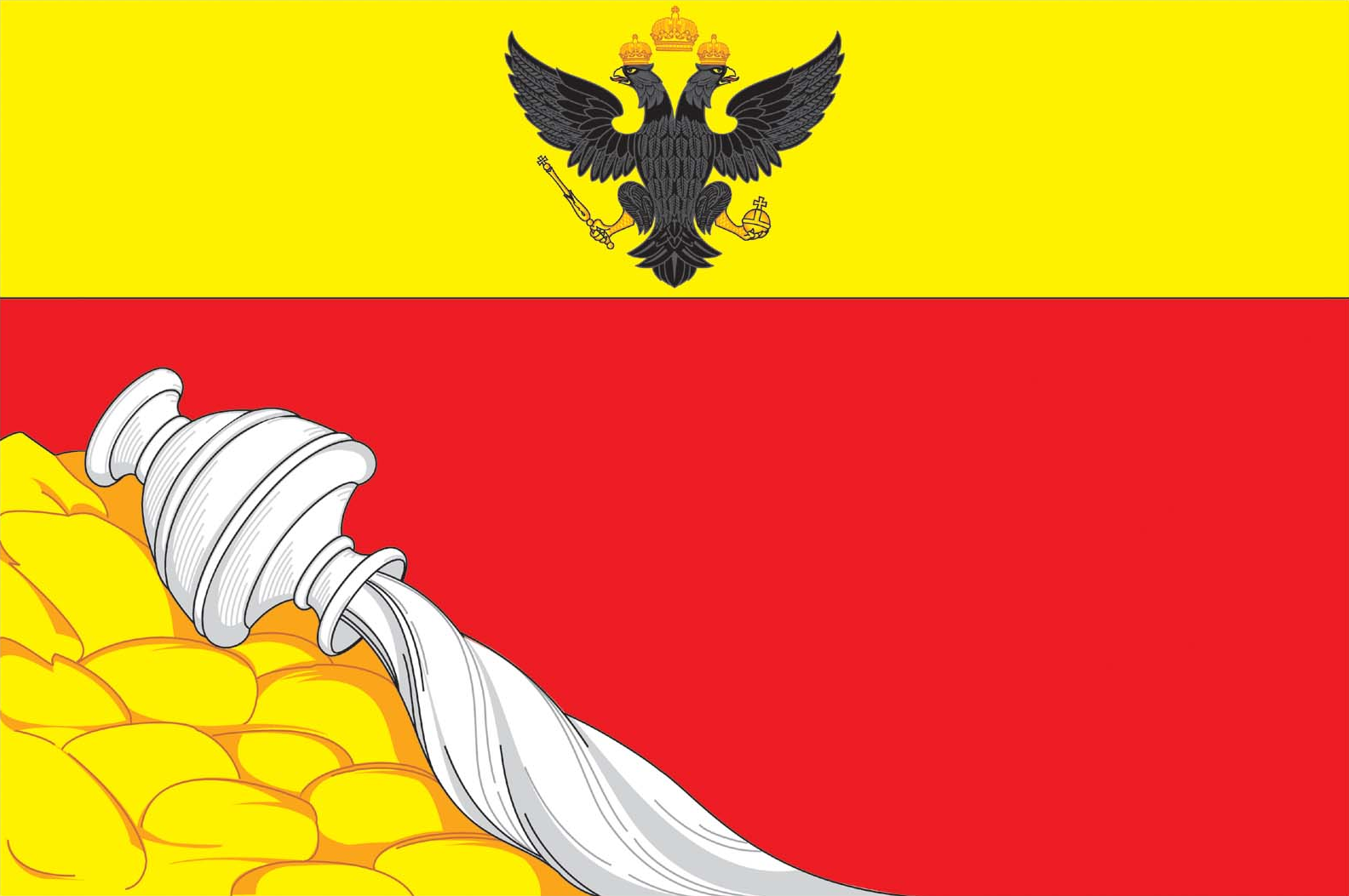 Voronezh, flag since 2008